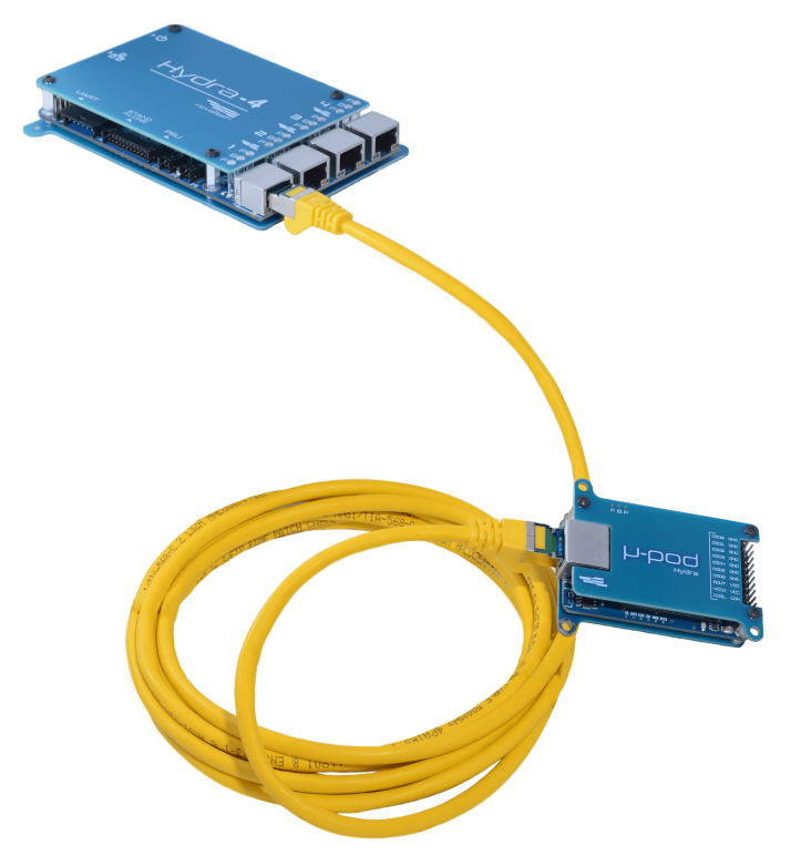 The system itself is composed by up to four POD units connected to a Hydra controller unit. An example of how a POD unit connected to the master unit can be seen here